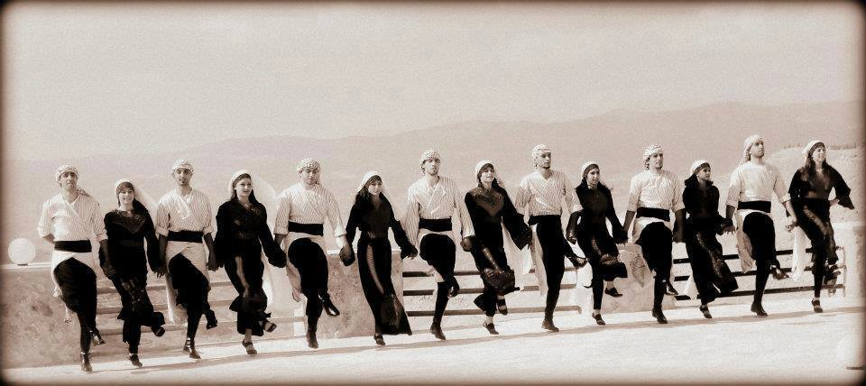 Palestinians dancing dabke